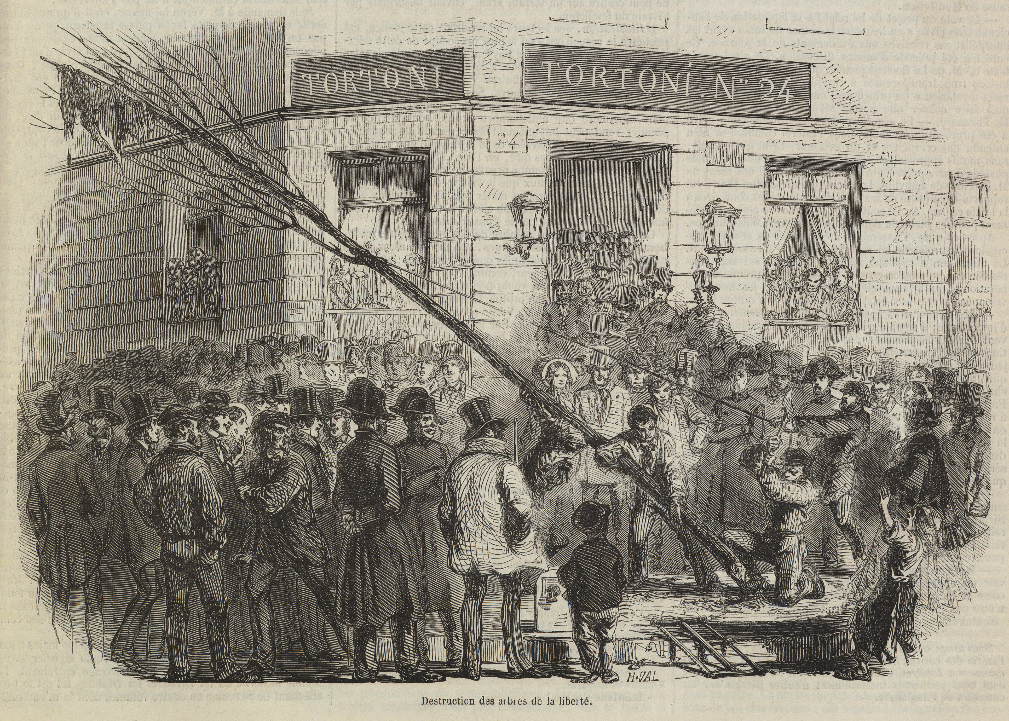 During the revolutionary period, the "trees of liberty" were planted all over the country, and became the symbols of France's overthrow of the royalty and newly acquired freedom. After the 1848 Revolution, the July Monarchy was brought down, and France was once again under a Republican regime. Trees of Liberty were planted in reference to the earlier Revolutionary period, and in order to justify the new political structure as an inheritance of the Revolutionary ideals. The Second Republic was short-lived, since Napoleon III, elected president in 1848, was to become Emperor in 1852. In 1850, when this print was published, the trees were being cut and burnt, prefiguring the change of regime that was to take place shortly after.